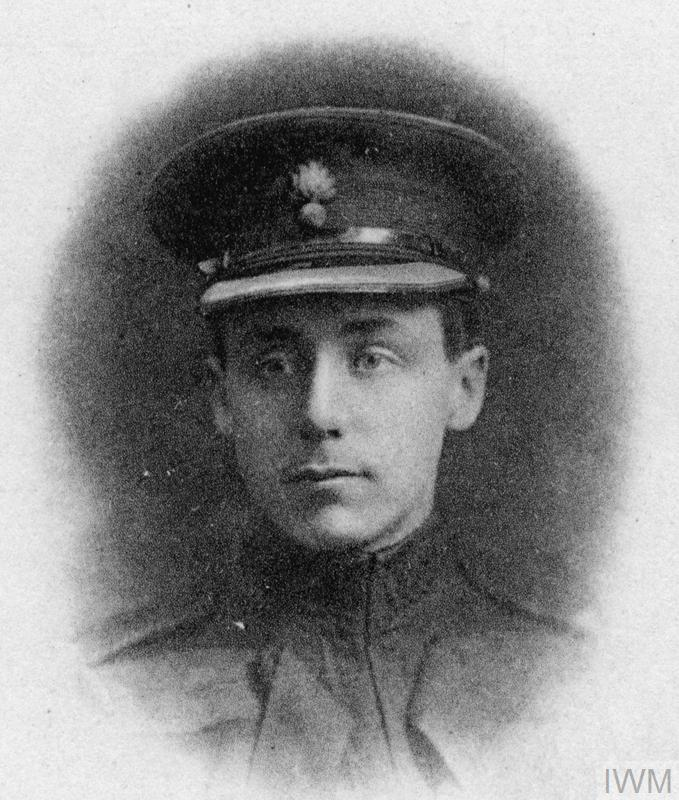 Lt Alan George Sholto Douglas-Pennant